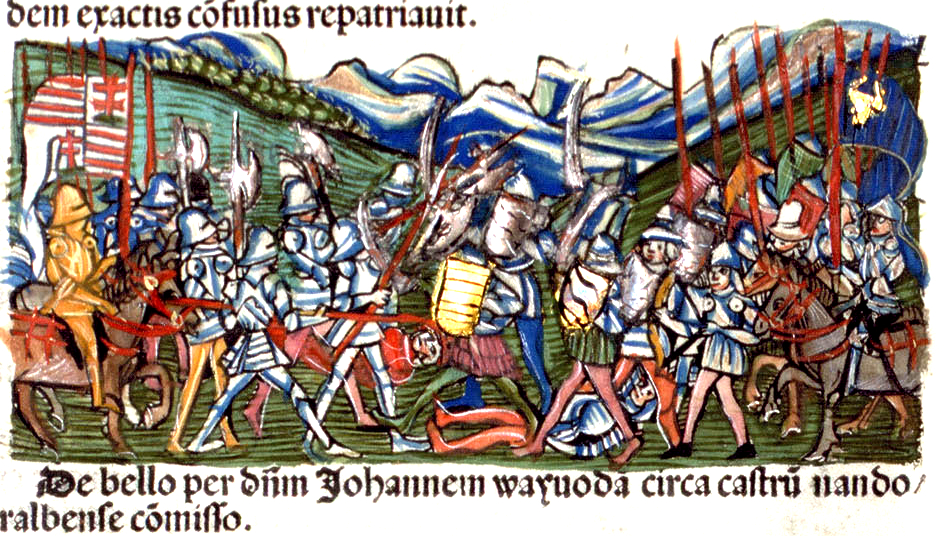 An image from the medieval Chronica Hungarorum (Chronicle of the Hungarians), depicting the Battle of Baia (15 December 1467): the Hungarian flag is to the left and the Moldavian flag is to the right. The flag at right has an aurochs device, the badge of Moldavia.